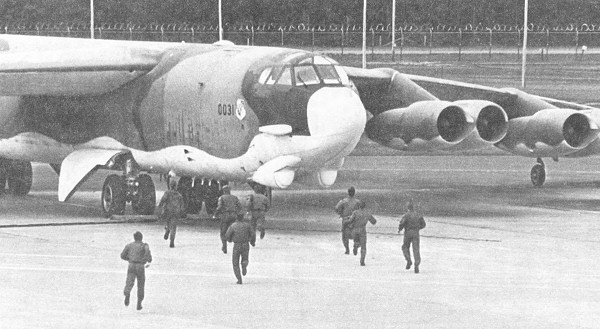 The crew of a B-52 on ground alert running to their plane during an alert